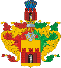 Coat of Arms of Ostrovsky family